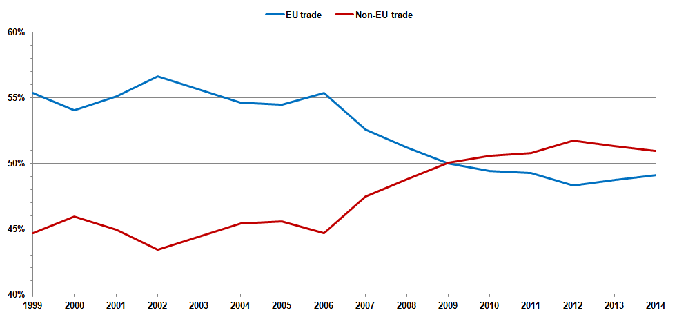 Connected scatter graph showing the United Kingdom's combined imports and exports between EU and non-EU countries from the year 1999 through to 2014.